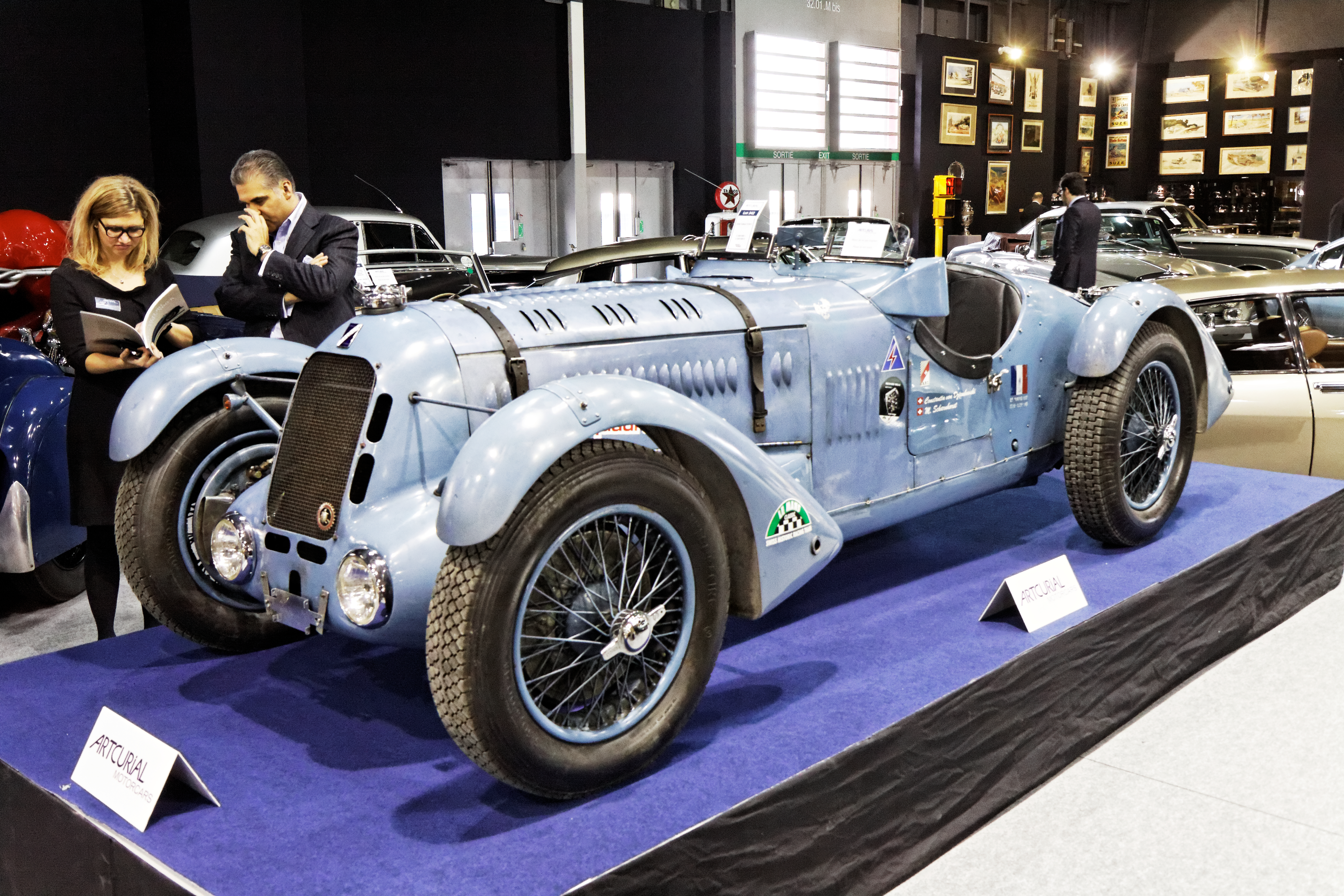 Une Talbot T150C présentée lors du salon Retromobile 2013. "In early 1934 Anthony Lago arrived from England to take charge at Talbot and ensure its return to economic health. After a convalescent period of modifications and modernization, he decided to go into track racing for two main reasons: to generate vital publicity, and - above all - as the perfect testing ground for the firm's new models. So he naturally responded favourably to the ACF's new rules, and tasked Walter Becchia to design a new sports car at the end of 1935. The car offered here is the one bought by Francique Cadot in 1936. CHASSIS - side-frames with interior openwork renforts - wheelbase: 2650mm (104in) - track (front & back): 1320mm (52in) ENGINE - straight 6 cylinders, longitudinally mounted at front - bore/stroke: 90 x 104.5mm = 3988cc - power in 1936: 170 bhp at 4700 rpm - hemispherical combustion chambers - overhead valves operated by pushrods & rocker-arms from lateral camshaft GEAR-BOX - Wilson pre-selector 4-speed, plus reverse SUSPENSION - front: independent wheels - back: rigid axle BRAKES - drums all round - weight: 1000-1100kg (980kg in racing version) - top speed: 210km/h (131mph)" Extracted from Artcurial sale catalogue